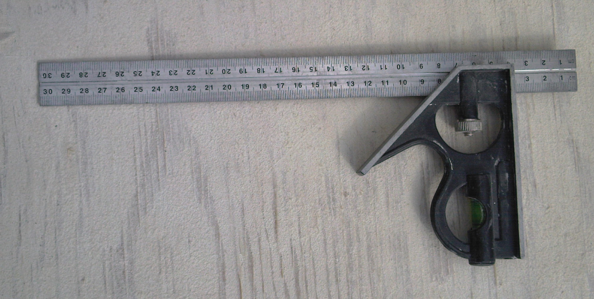 Set square